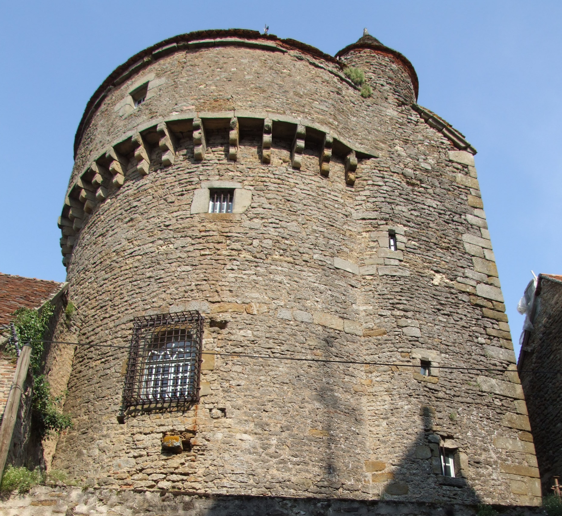 Arnay-le-Duc, Burgundy, FRANCE